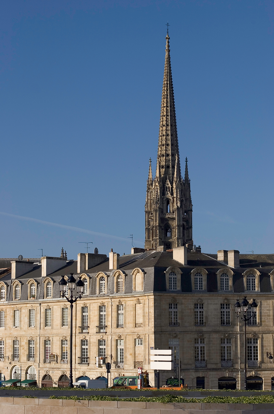 Saint-Michel church in Bordeaux, France.